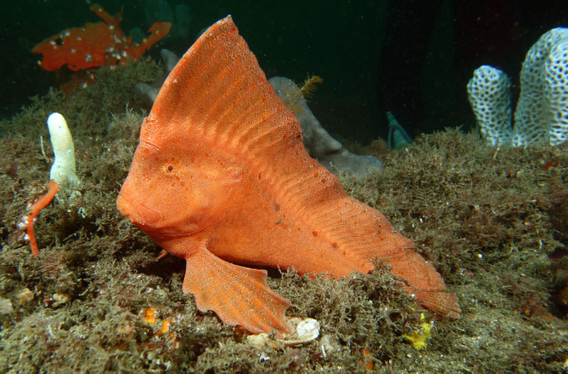 Red Indian Fish - Pataecus fronto